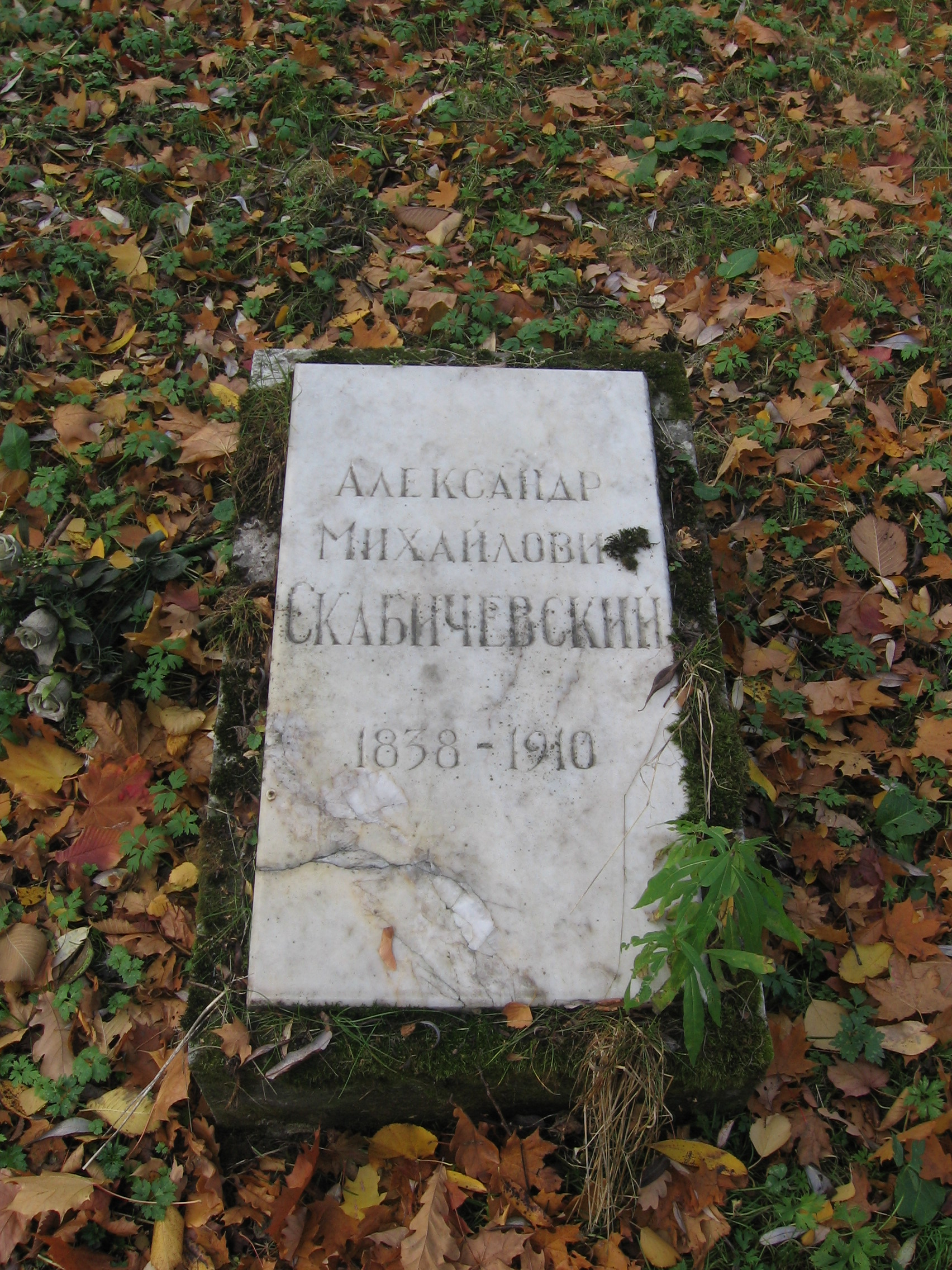 Grave of Alexaner Skabichevsky